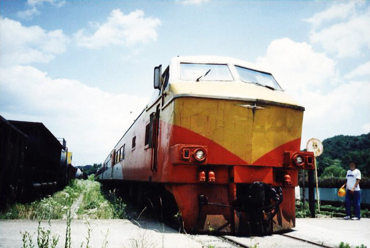 Korean National Railroad DMU 'DEC'(Diesel Excellent Car/Diesel Electric Car)